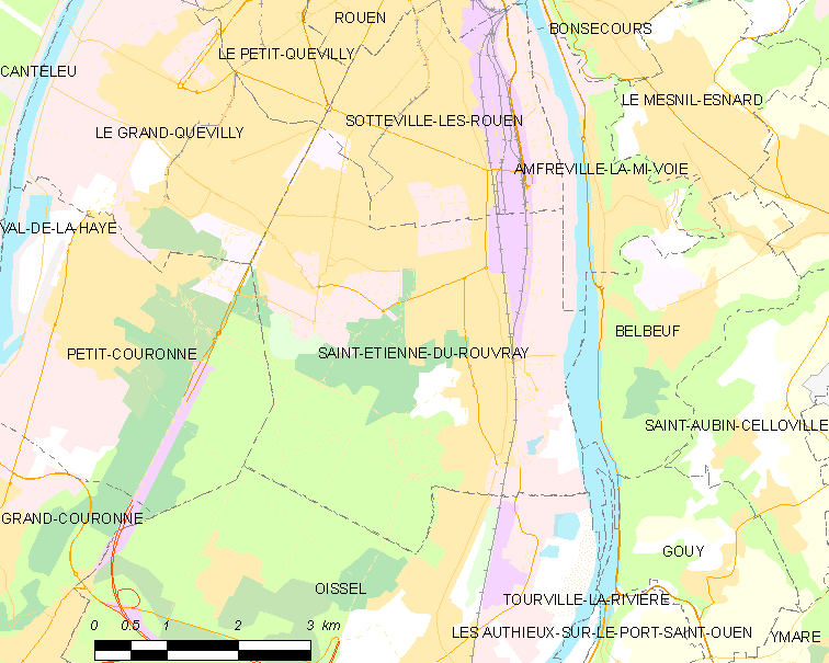 Map of French municipality Saint-Étienne-du-Rouvray